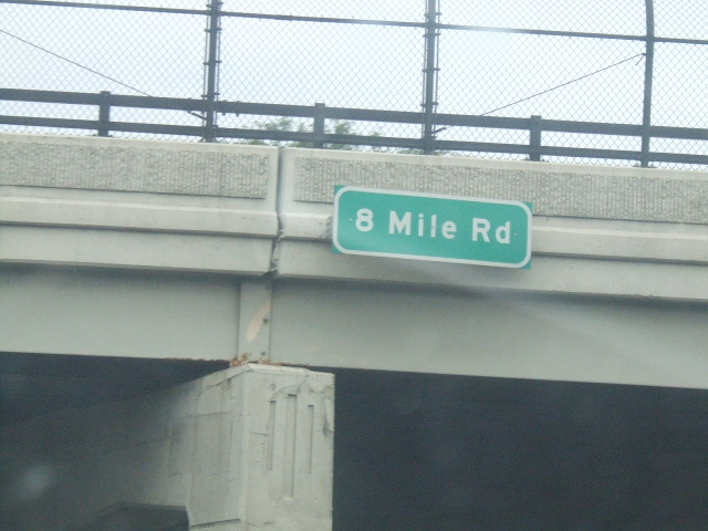 The picture was taken on my way home. 8 Mile Road overpass in St. Clair Shores on eastbound Interstate 94 in MichiganI-94.